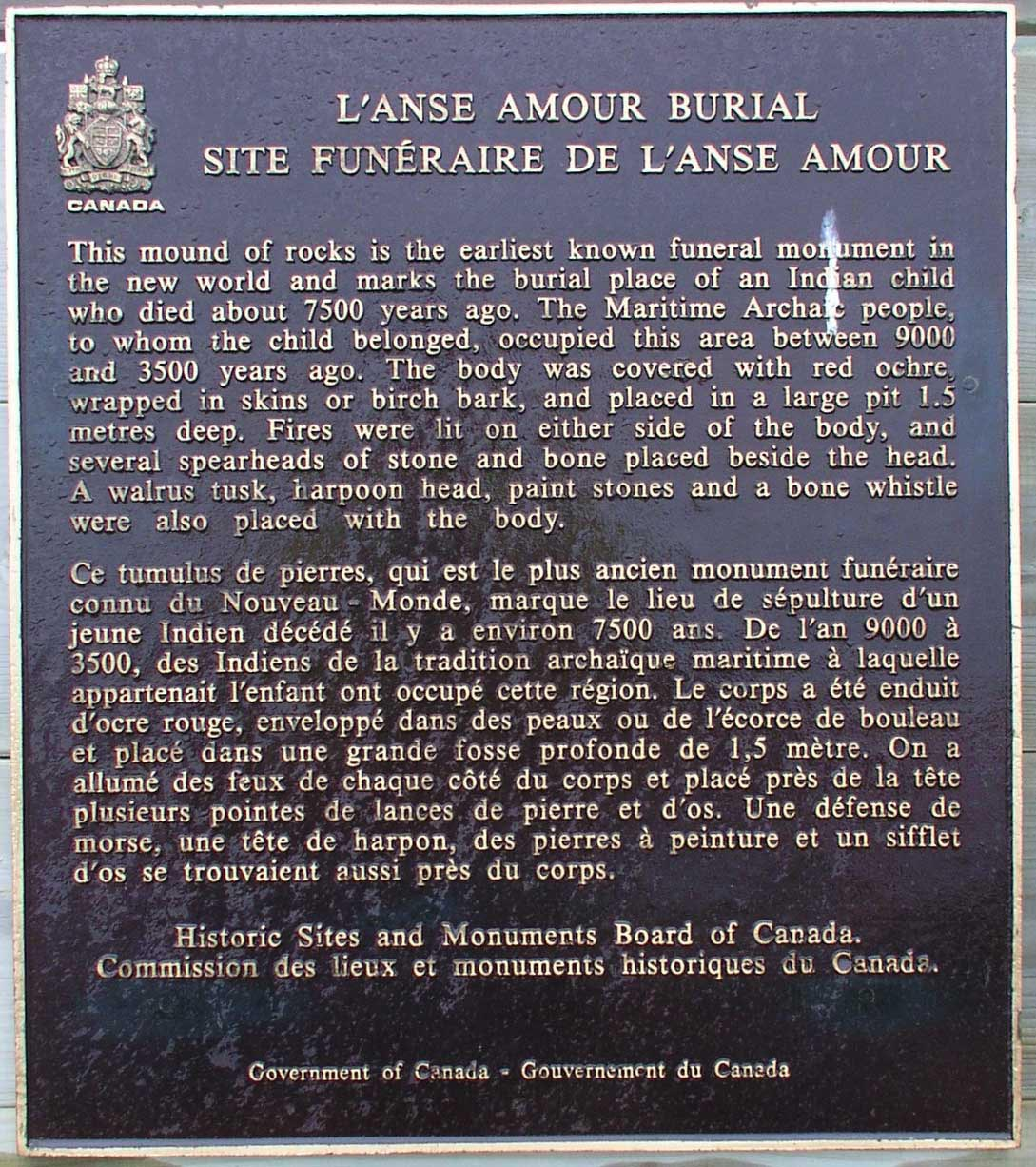 The L’Anse-Amour, Labrador, plaque marking the 7,500 years-old burial mound site.